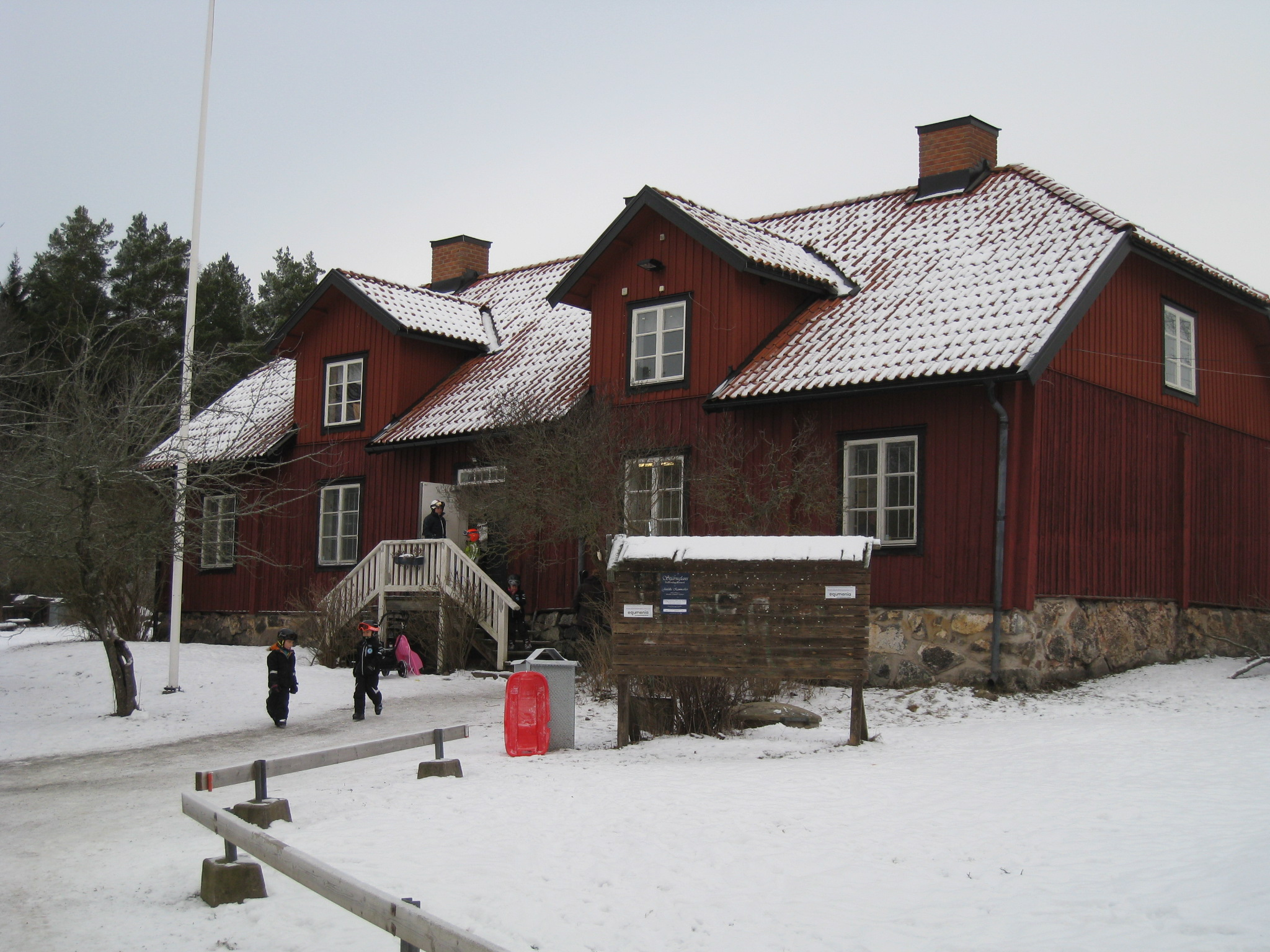 Bruket's ski slope, Järfälla Municipality, western Stockholm.